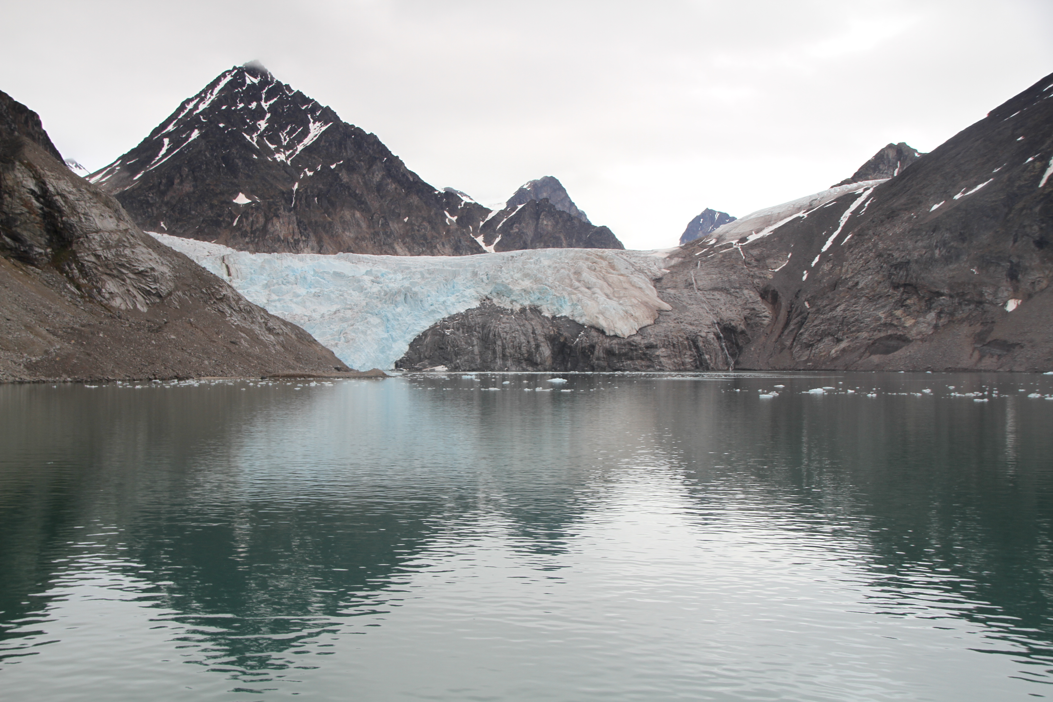 Photo of the coastal mountain areas in Tinayrefjorden, an eastern arm of Krossfjorden, western Haakon VII Land, western Spitsbergen.